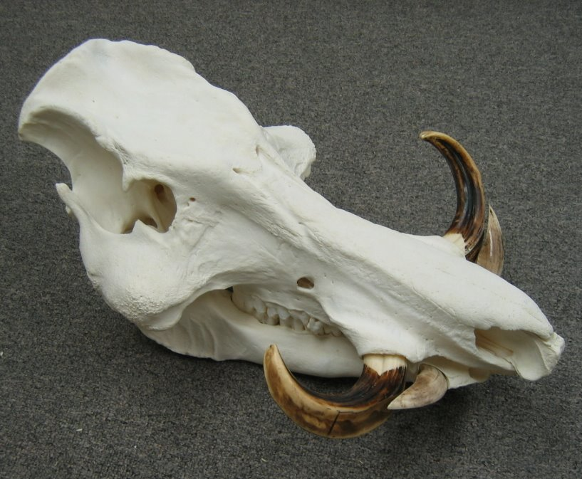 A Giant Forest Hog From the Collections of Skulls Unlimited International.